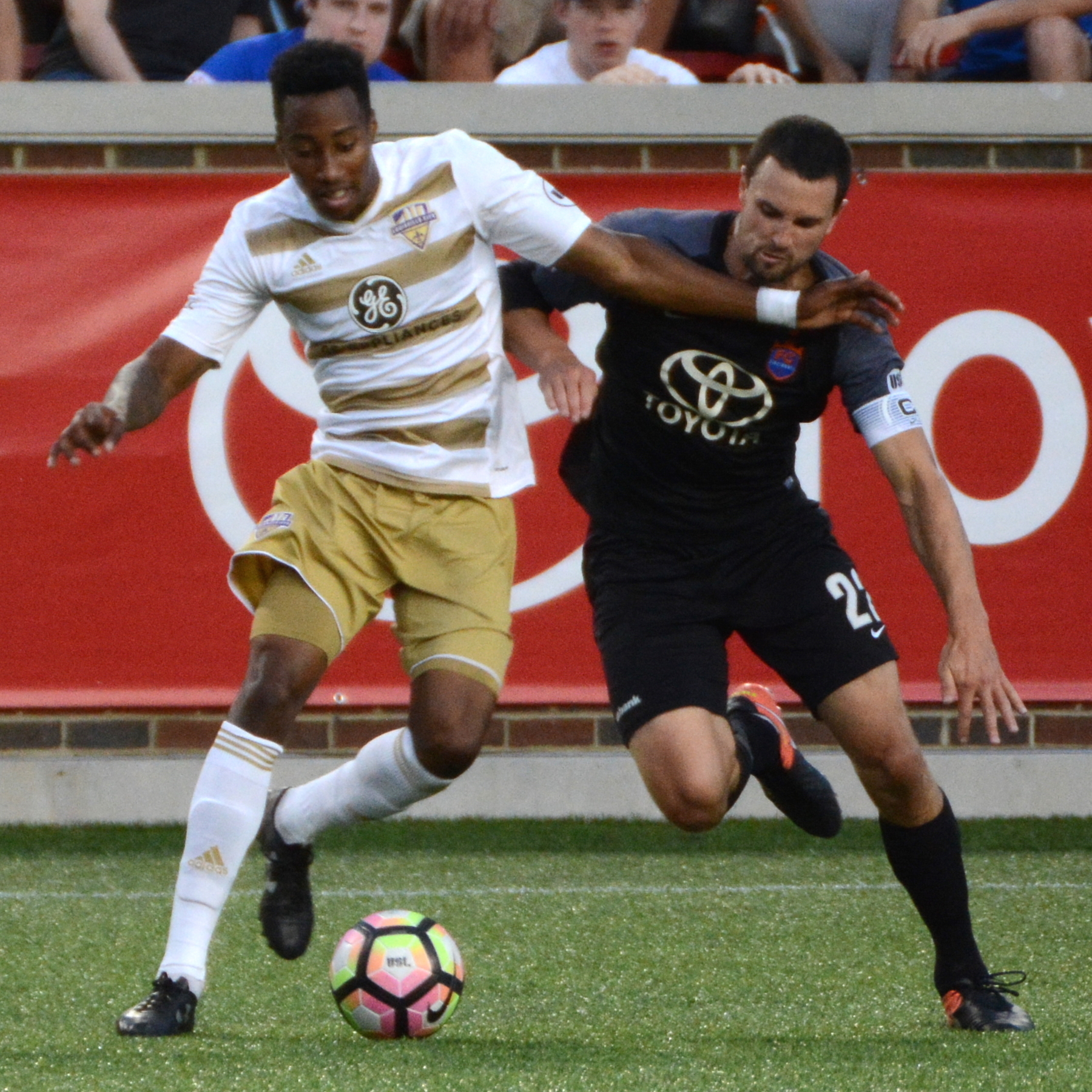 Mark-Anthony Kaye, Austin Berry Taken at a Lamar Hunt U.S. Open Cup match between FC Cincinnati and Louisville City FC at Nippert Stadium in Cincinnati, Ohio on May 31, 2017.